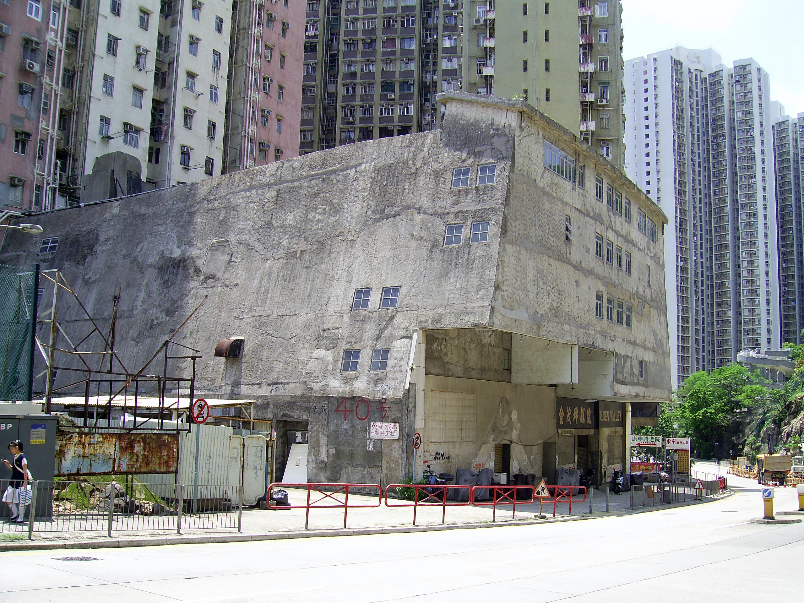 Former Golden Valley cinema